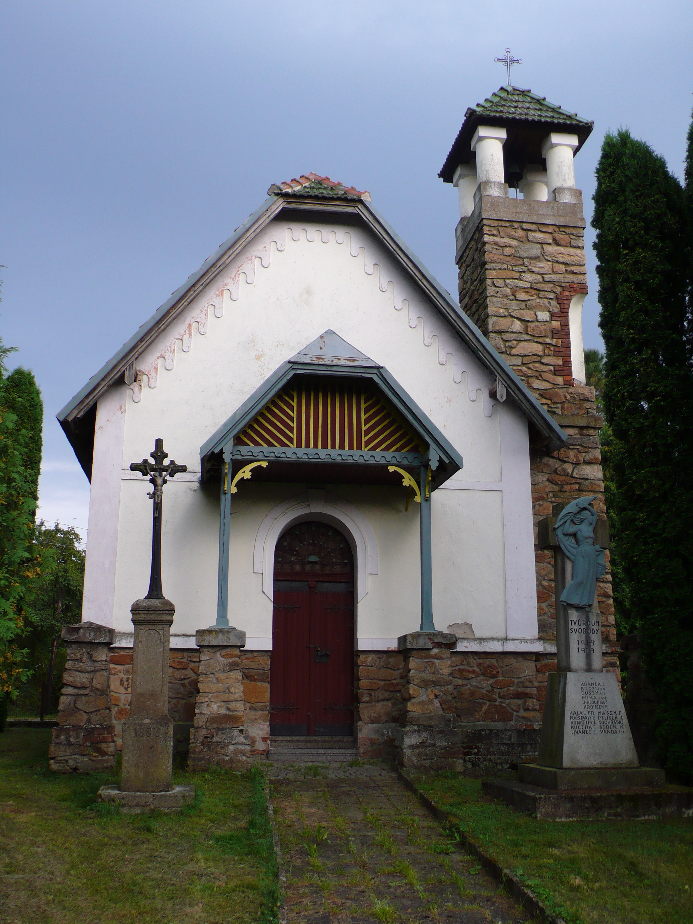 Chapel (Jetětice)